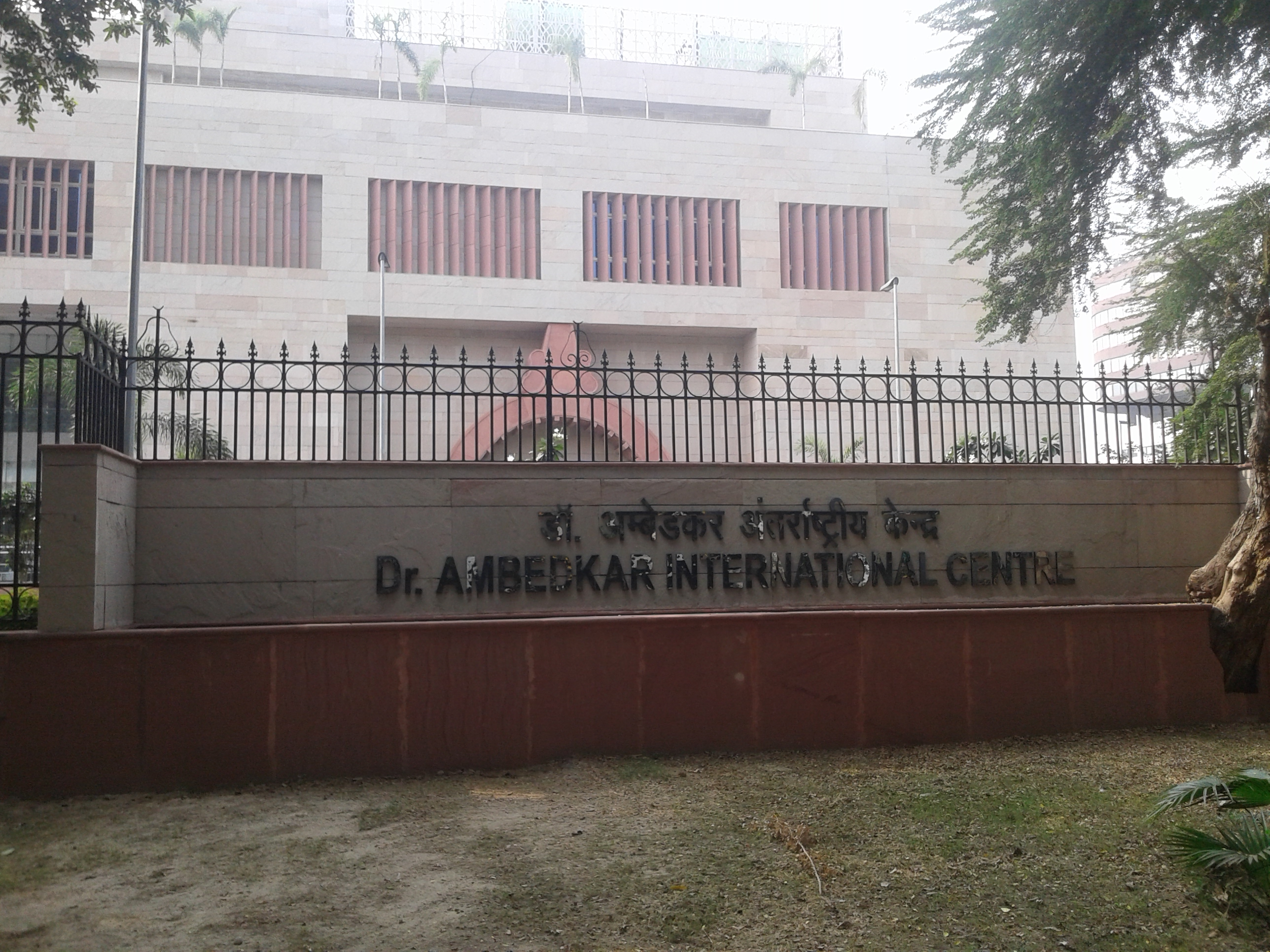 Dr Ambedkar international Centre, New Delhi